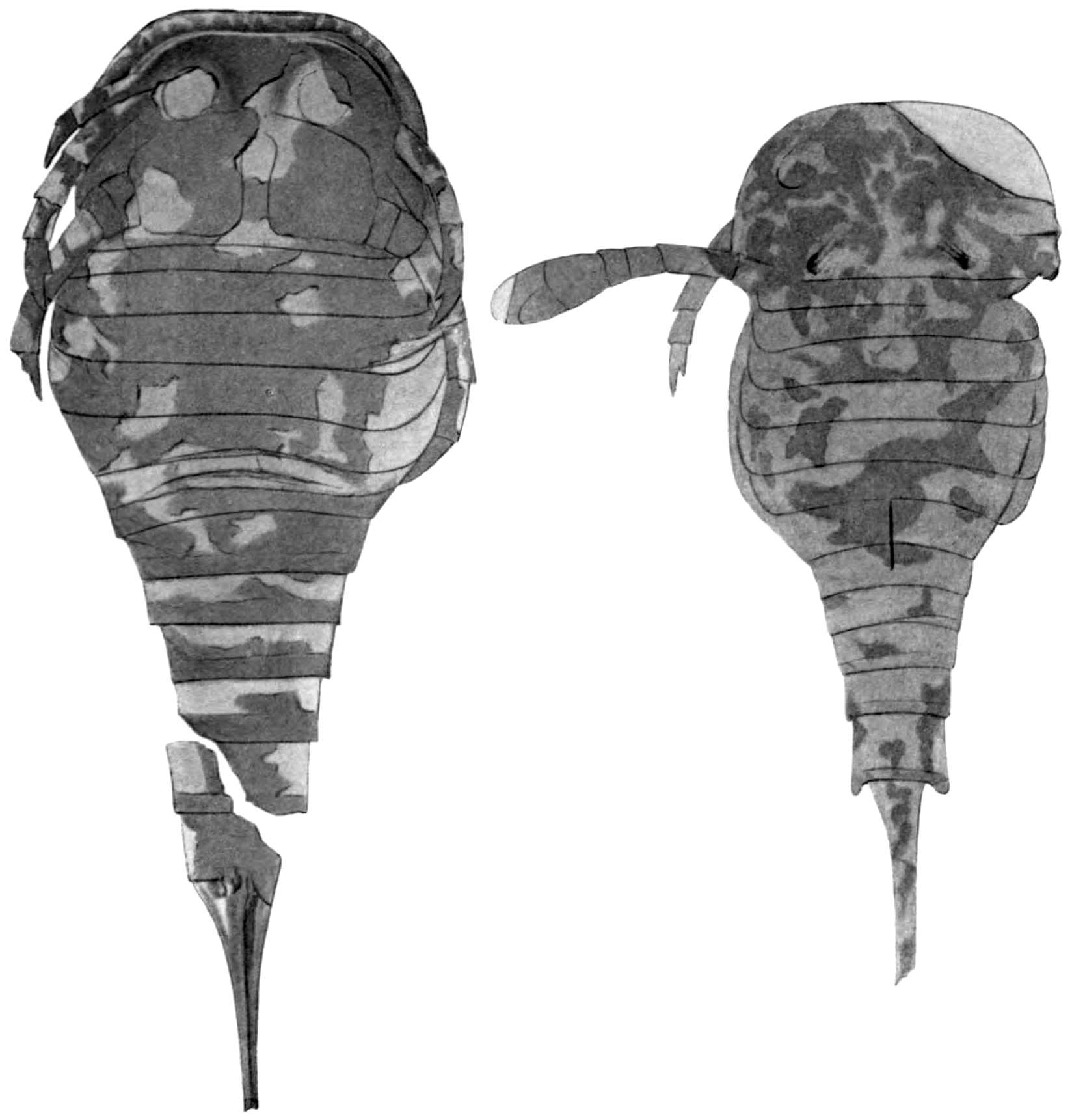 Paratypes of the eurypterid species Eurypterus ranilarva, now considered a synonym of Onychopterella kokomoensis.